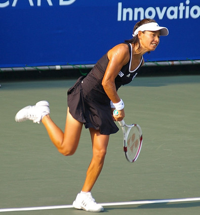 Kimiko DATE KRUMM (Toray Pan Pacific Open 2008)